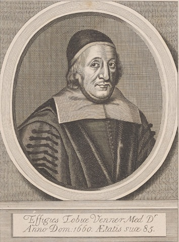 TOBIAS VENNER (1577-1660), Medical writer. Portrait, looking front, in skull cap, wide plain collar and black gown. Oval within border upon entablature with Latin inscription. Front. to the 1660 edition of his "Via Recta".